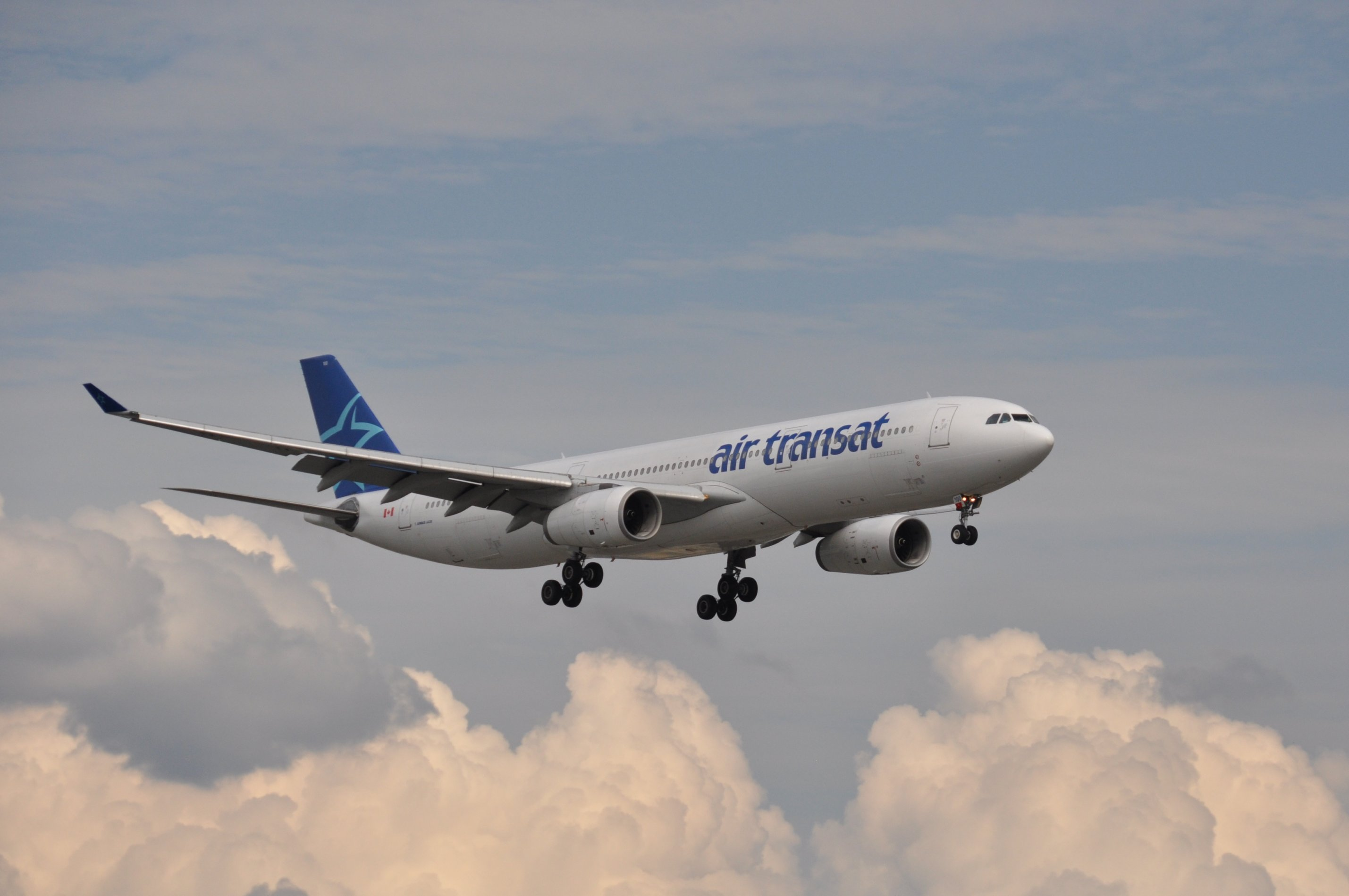 Air Transat Airbus A330 C-GKTS, Montreal